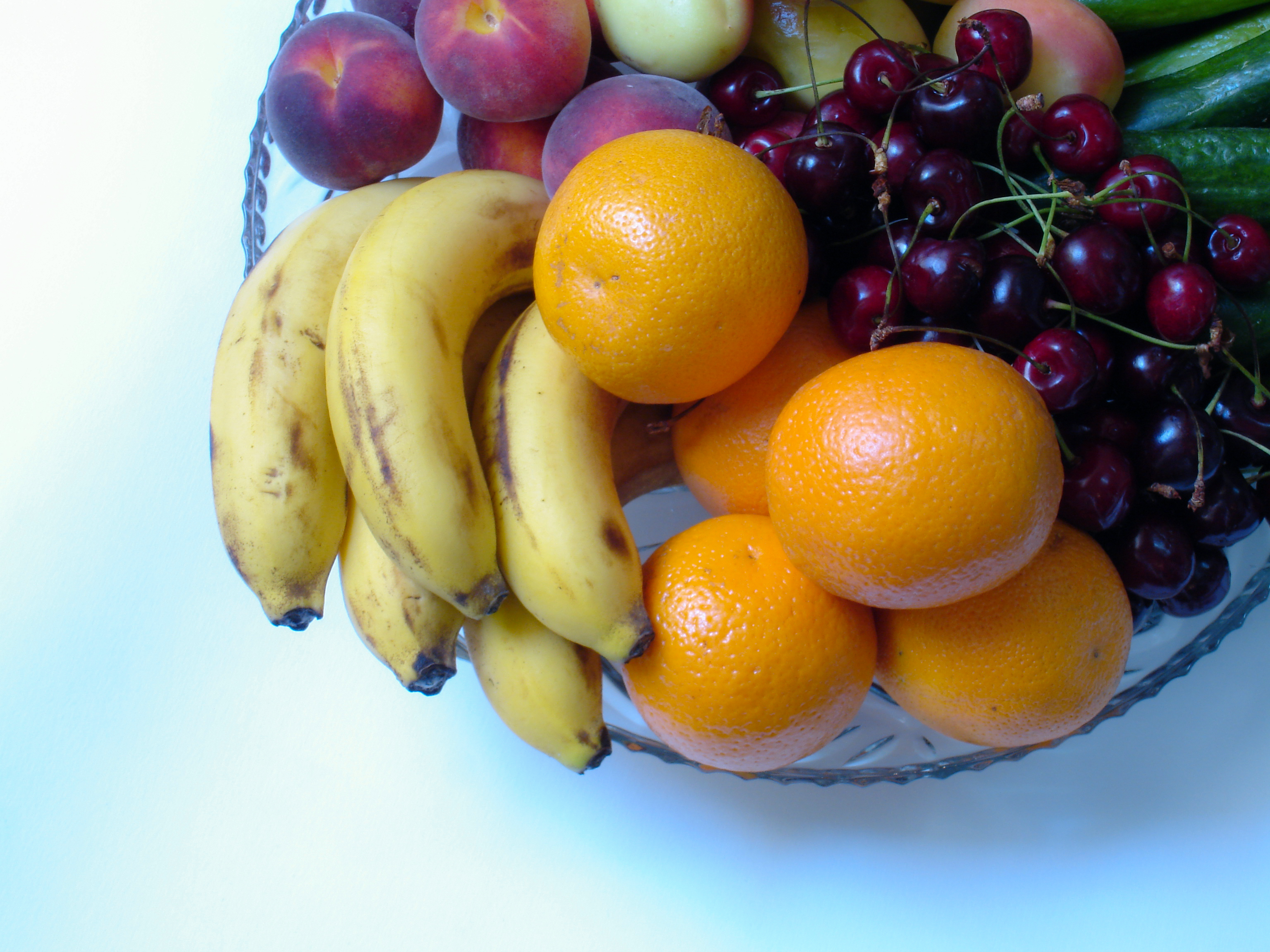 In botany, a fruit is the seed-bearing structure in flowering plants (also known as angiosperms) formed from the ovary after flowering.